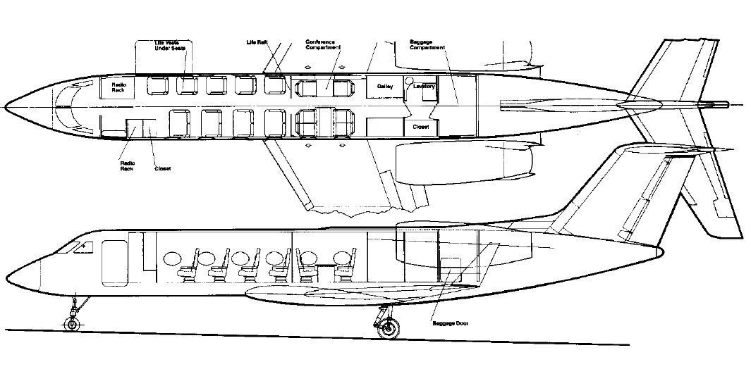 Gulfstream IV-SP Cargo Layout